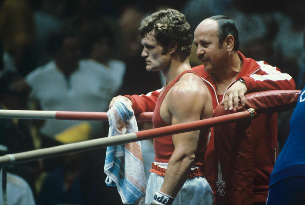 “Boxer Viktor Savchenko”. Viktor Savchenko, silver winner of the Olympic Games in a final boxing round (-75kg). The 22nd Olympic Games. July 19 - August 3, 1980.